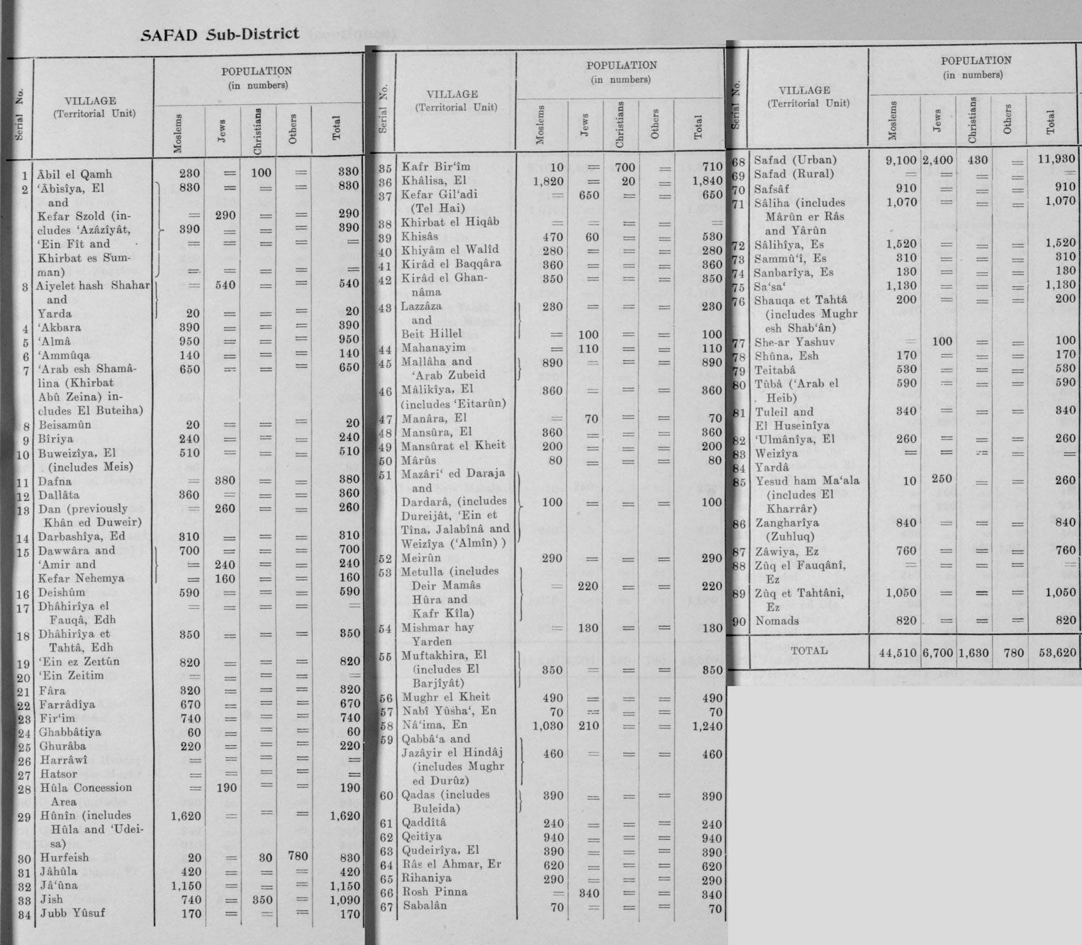 1945 Palestine Mandate Village Statistics